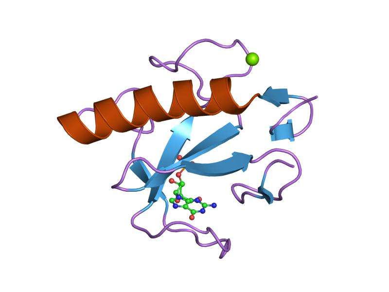 Cartoon representation of the molecular structure of protein registered with 1hz1 code.